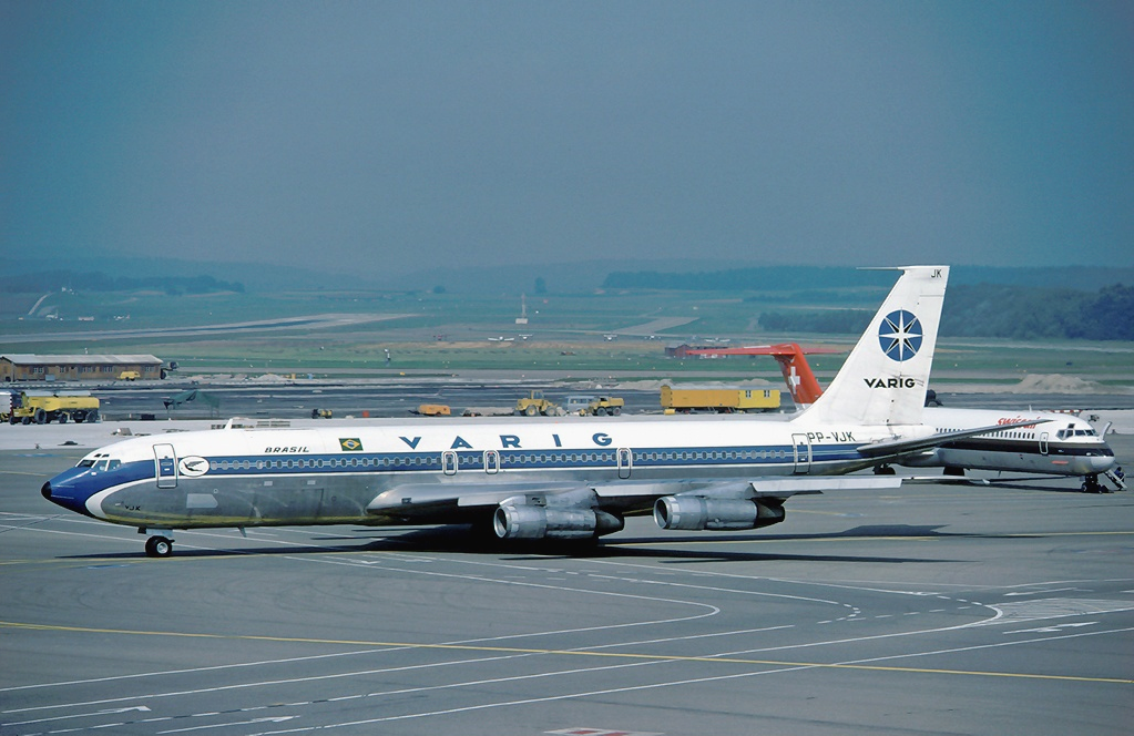 PP-VJK, a Varig Boeing 707-379C that crashed in Côte d'Ivoire on 3 January 1987.